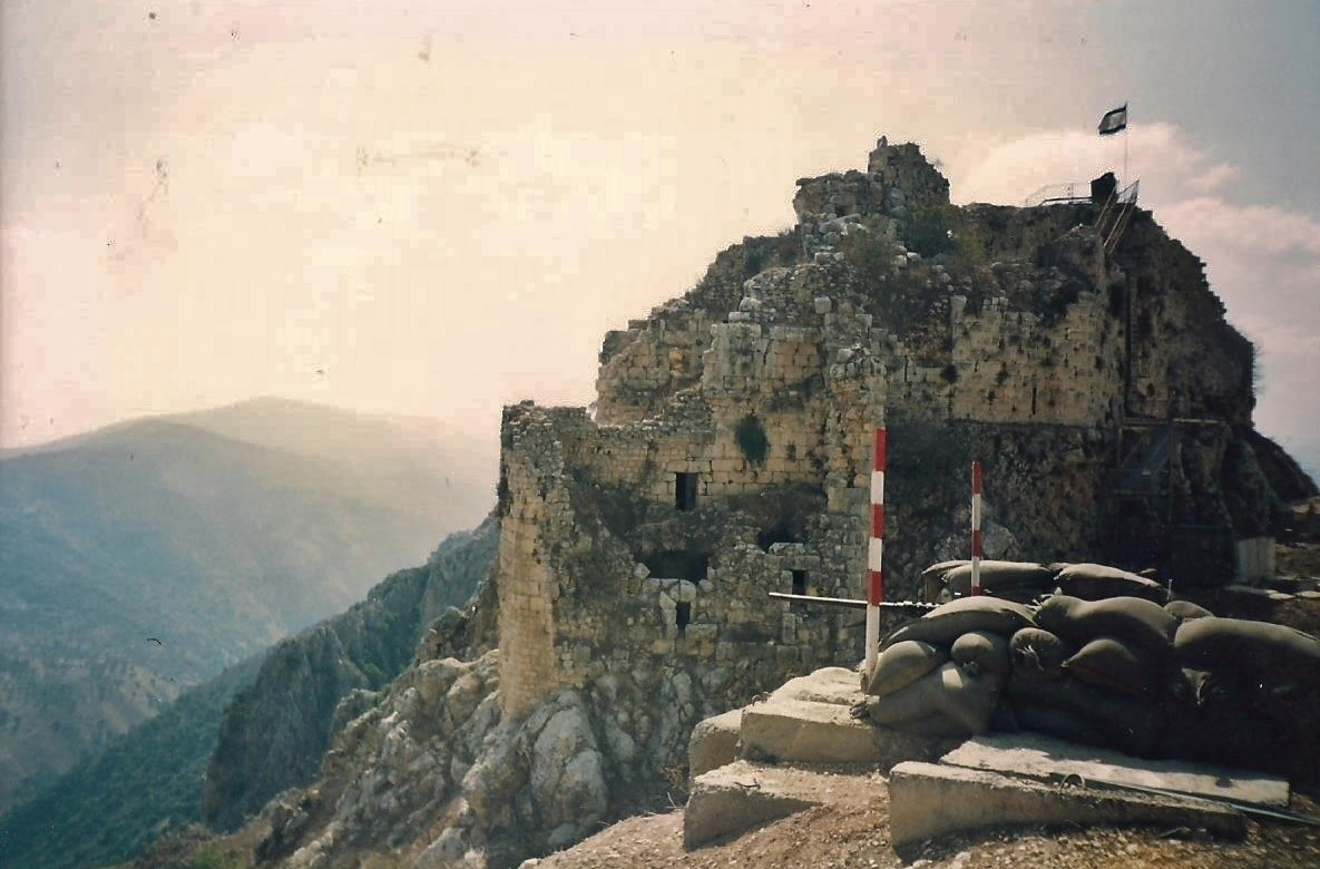 עמדה צפון מזרחית בבופור 1995 (התמונה צולמה על יד עופר מרגלית)